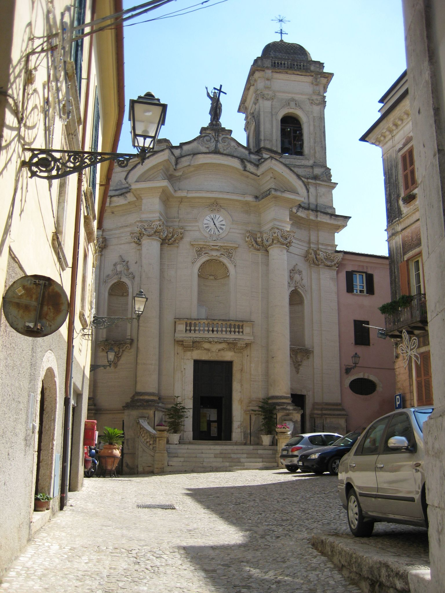 On the site where today the church of Santa Maria di Civita rises, there was once a pagan temple dedicated to Mercury Lanarius, the god protector of wool manufacturing, which was the main activity of the Roman centre of Civitas Falconara. Santa Maria di Civita was built here in the early times of Christianity and the first news about it comes from a donation document signed in 1038 in the church of Santa Maria d'Arpino. Reconsecrated in the early 1300, Santa Maria di Civita was totally rebuilt in late baroque style at the end of the 18th century and further enriched during 1900.